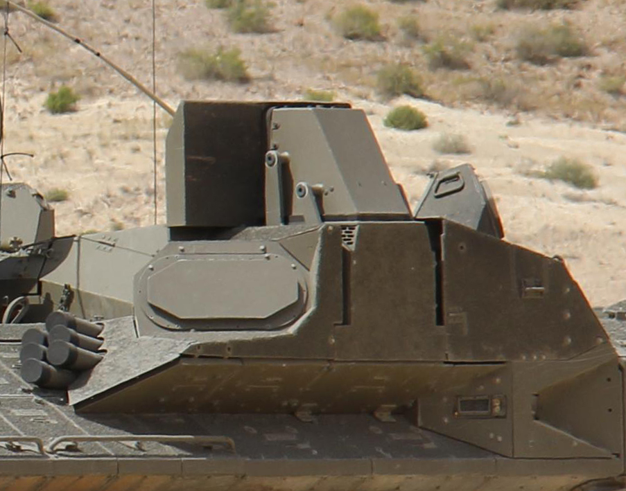 Trophy on NAMER AFV